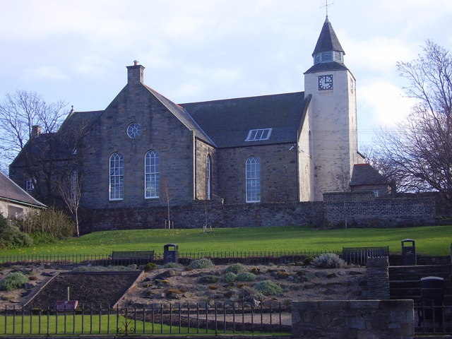 Early Presbyterian Church